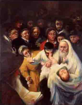 Brit milah 1980